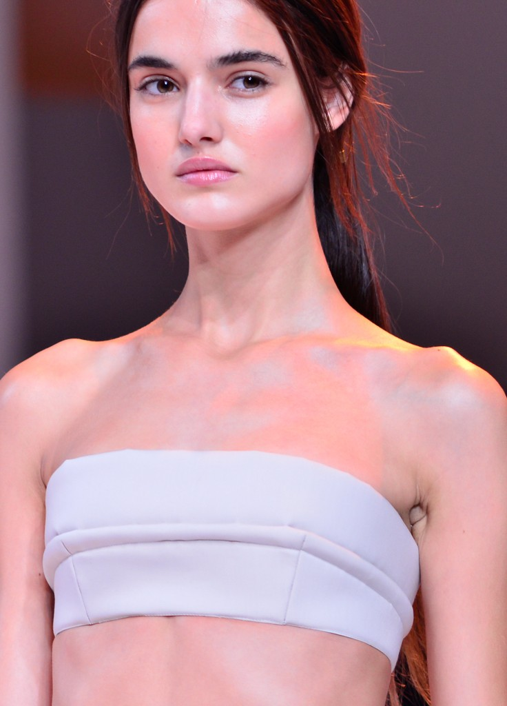 Blanca Padilla walking the runway for Porsche Design.